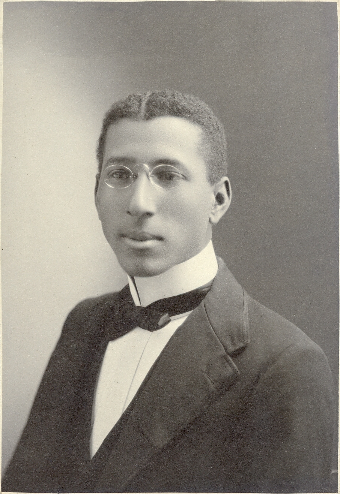 George Williamson Crawford, a student at Yale University Law School at the time of this photograph.